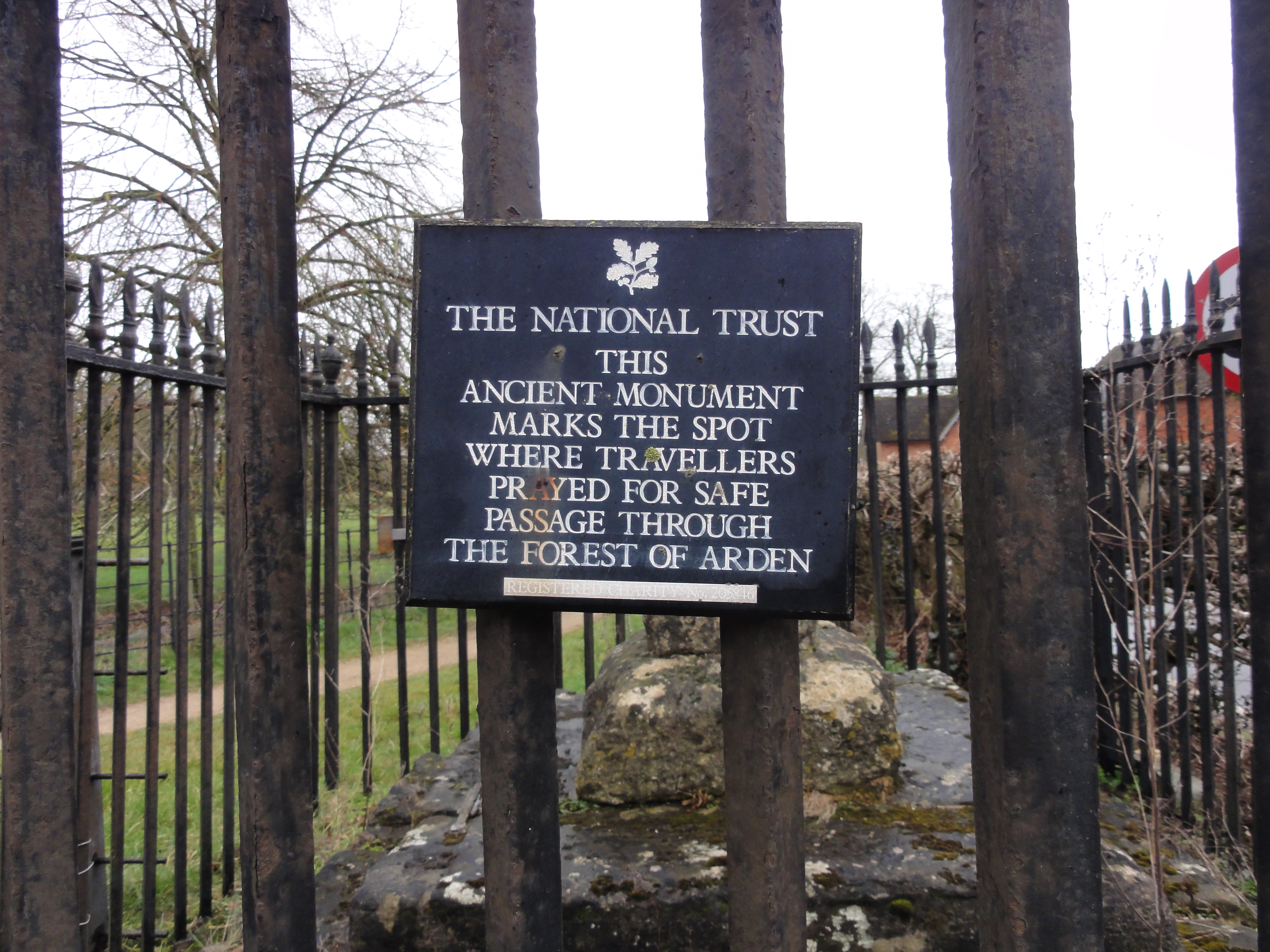 The wayside cross, Coughton Cross, was said to be the place travellers would pray at before entering The Ancient Forest of Arden, now just a collection of small woods.